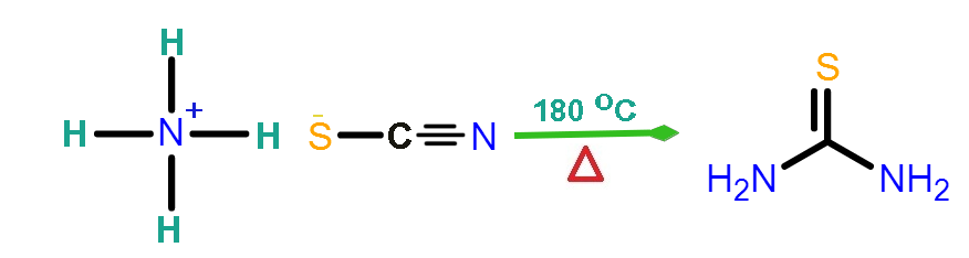 Thiourea synthesis2